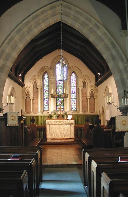 Church of England parish church of the Holy Trinity, Over Worton, Oxfordshire: view east from the nave to the chancel